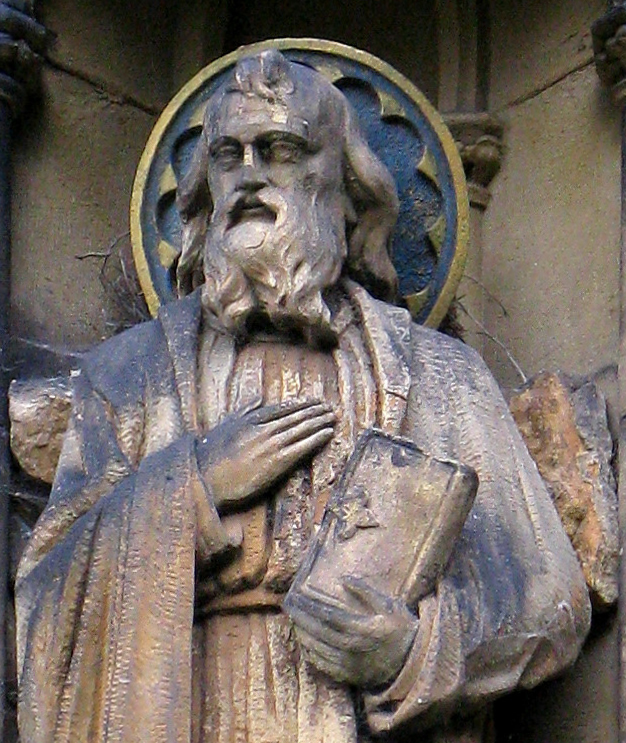 Stone carving on St Matthew's Church, Lightcliffe nr Halifax, West Yorkshire, England. Church was designed in 1875 by William Swinden Barber.